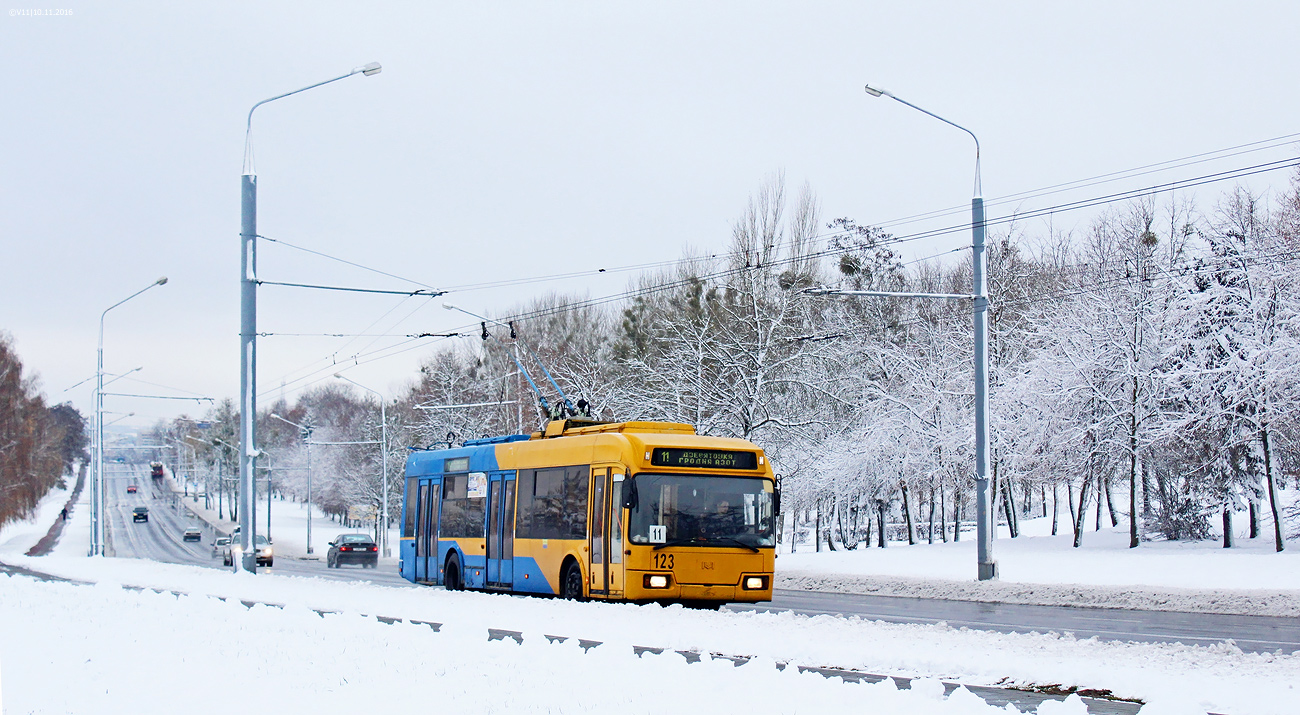 BKM 32102 trolleybus in Hrodna